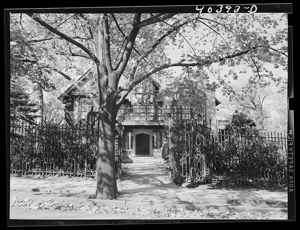 Exterior (front) of the Frank D. Yuengling mansion in Pottsville, Pennsylvania, 1938. Frank Yuengling was a member of the Pennsylvania family which founded and operated the Yuengling Brewery Co. The home was photographed by Sheldon Dick for the U.S. Farm Security Administration (U.S. Library of Congress, public domain). Note: The title of this photo was originally "Yingling House," but the spelling of the family's surname was "Yuengling," not "Yingling."